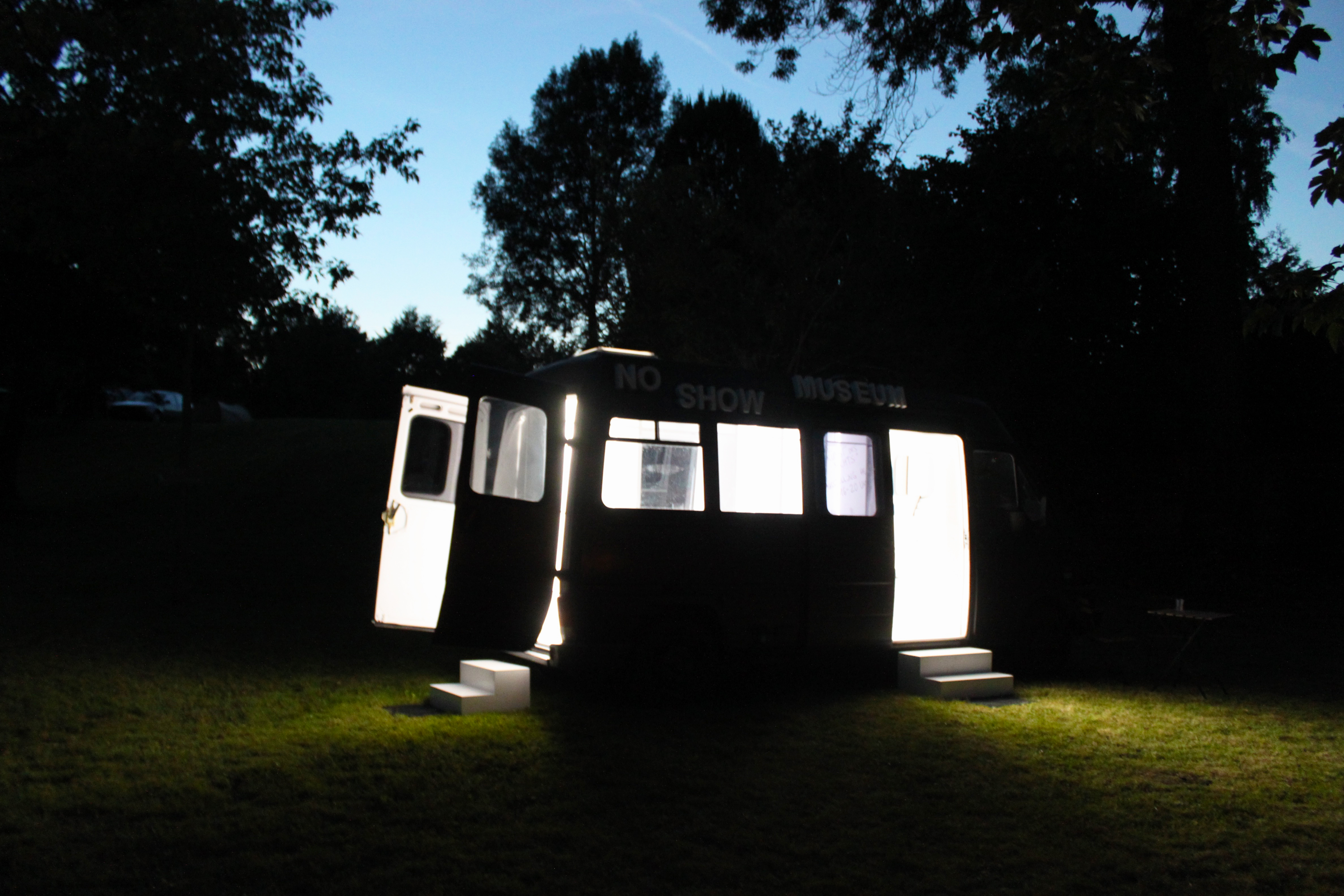 The mobile exhibition space at night.